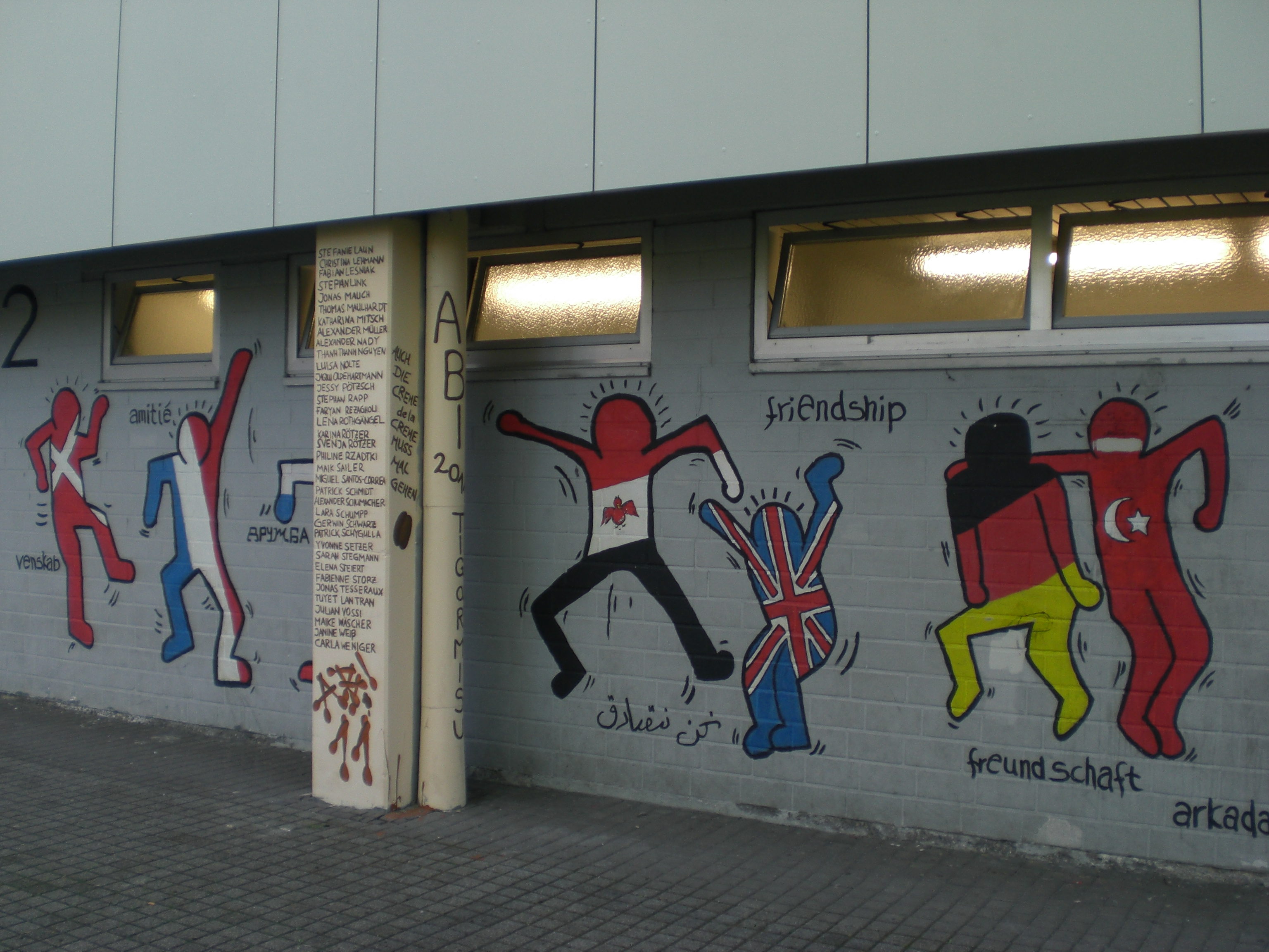 Happy figures say friendship in different tongues.